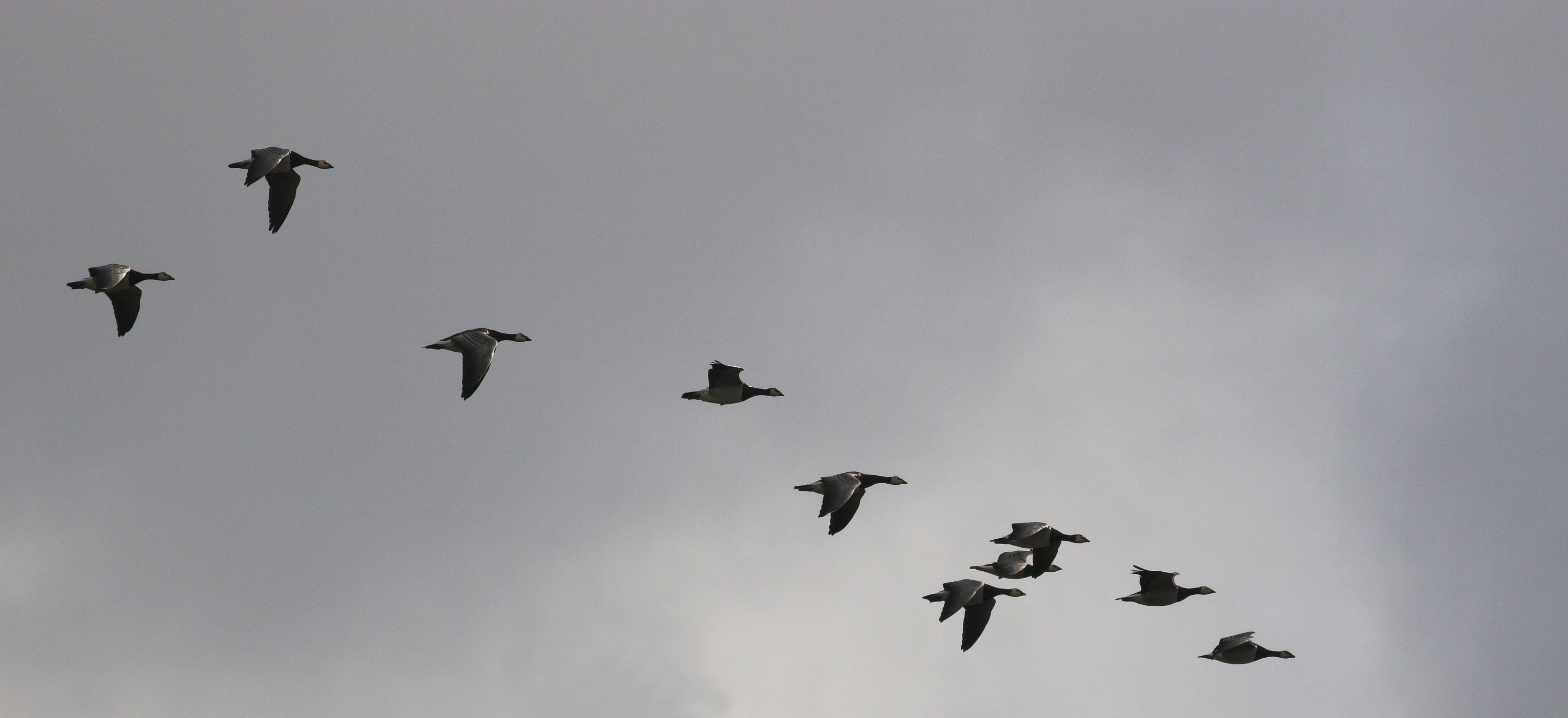 Flock of barncale geese on autumn migration. Photo by Thermos.